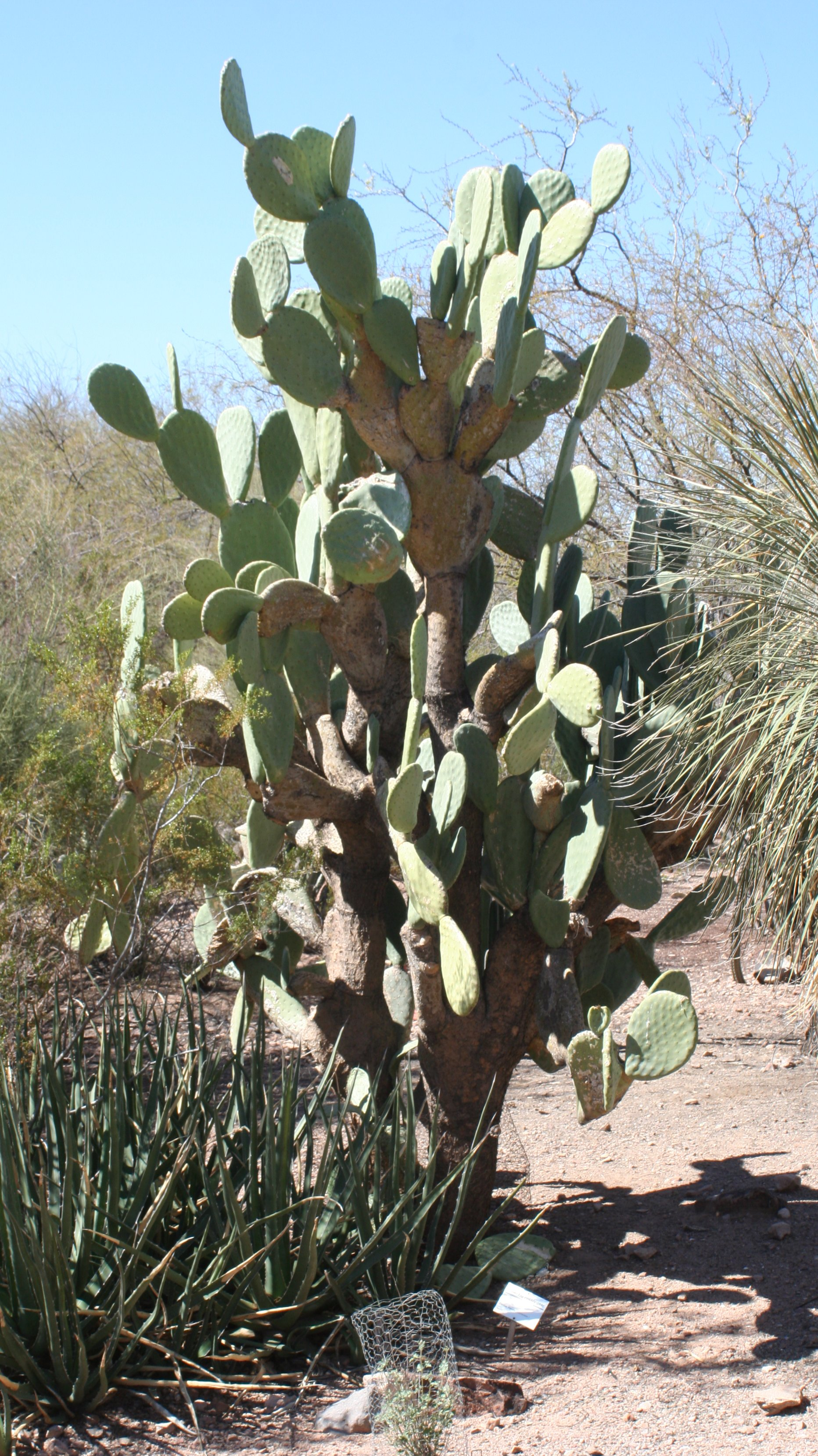 Indian Fig Prickly Pear (Opuntia ficus-indica); Cactus family (Cactaceae); native to Mexico. Photographed at the Desert Botanical Garden, Phoenix, AZ.